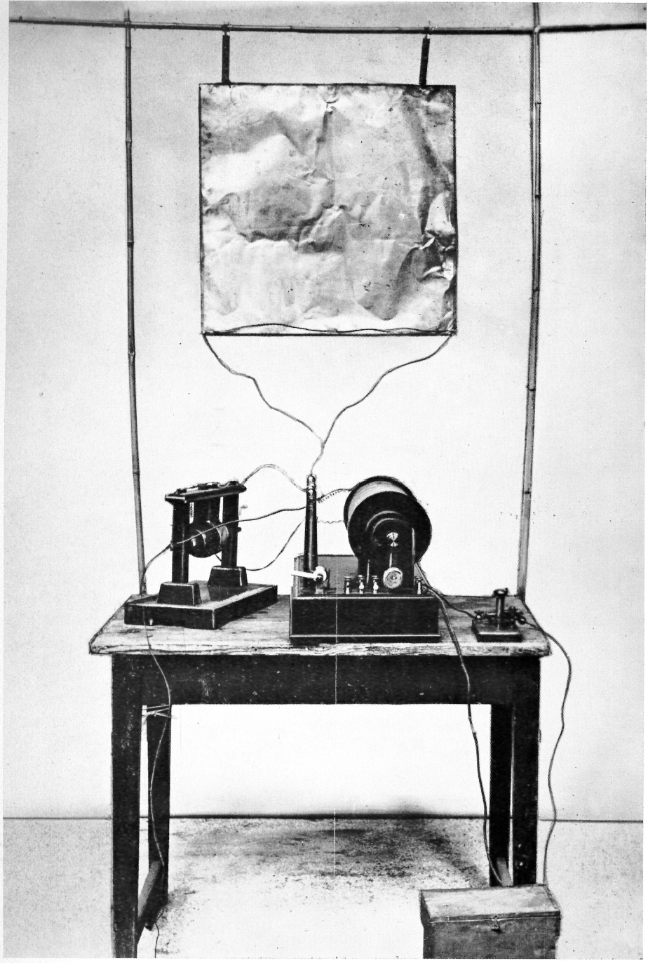 Recreation of the first radio transmitter with a monopole antenna, built by Guglielmo Marconi in August 1895 during his development of radio communication. It was a spark-gap transmitter which generated radio waves by an electric spark between two electrodes of a Righi spark gap (left, on table). The high voltage to produce the spark was generated by an induction coil (center) powered by a battery (on floor). A telegraph key (right, on table) in the primary circuit allowed the operator to switch the transmitter on and off rapidly, producing pulses of radio waves which spelled out text messages in Morse code. The unique feature of this transmitter is that it includes Marconi's invention of a monopole antenna. Marconi found that by connecting one side of the transmitter to an elevated copper sheet "capacity area" (top) and the other side to ground (earth), he could transmit longer distances than when using the previous dipole antennas invented by Hertz. This crucial innovation reduced the frequency of the radio waves, and radiated vertically polarized waves which had a greater range. With it Marconi achieved the first radio transmissions of practical distance, about 3 1/2 miles.